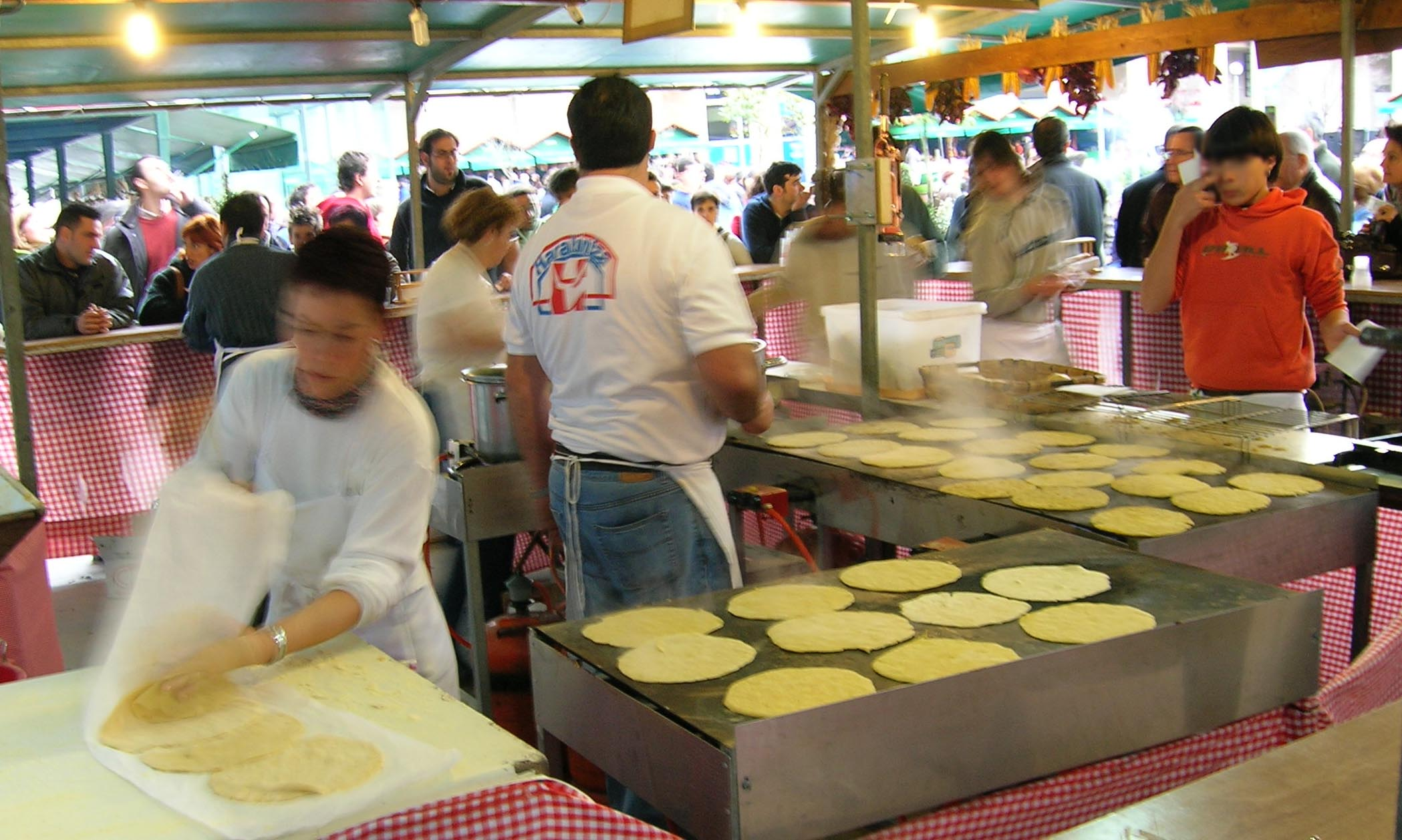 Making of talo at the Agricultural and Livestock Fair in Leioa, Biscay, Spain.